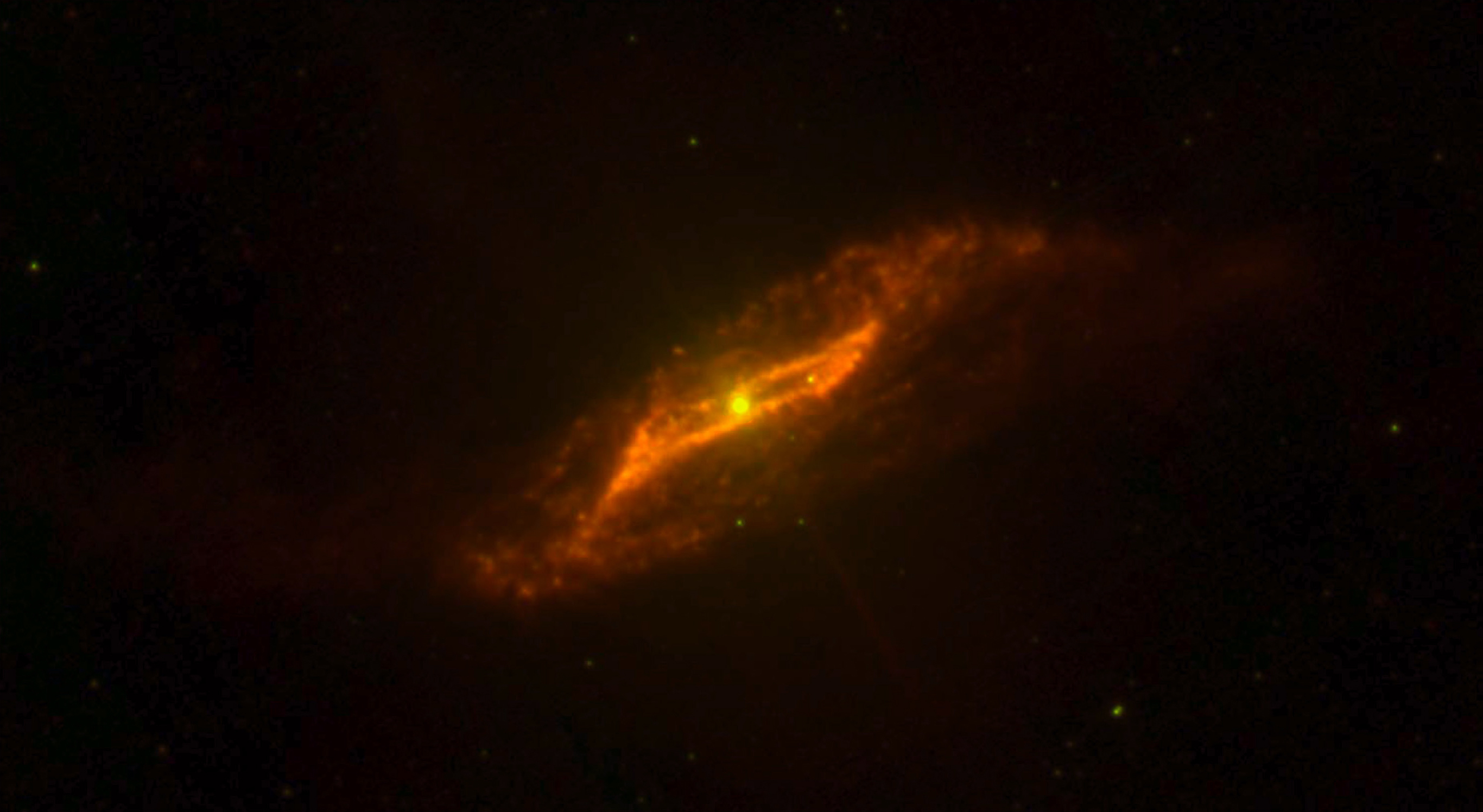 Centaurus A in infrared